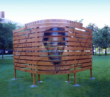 Mary G. Ross Sculpture titled, "Mary G. Ross: Scientist, Engineer, Cherokee-American" in honor of Mary G. Ross that was produced by Lawrence Kinney (front view). The sculpture has been installed on the grounds of Buffalo State College.